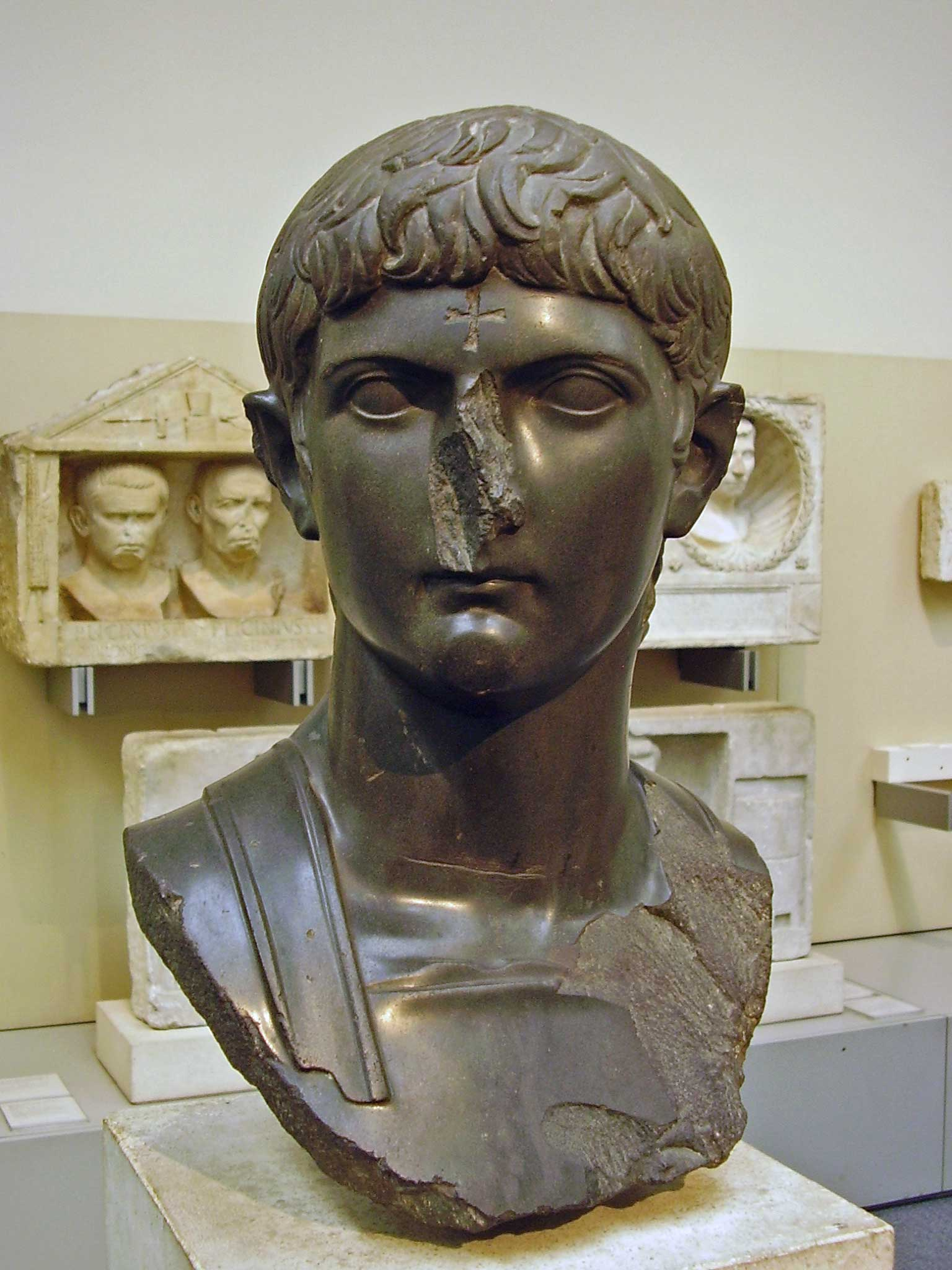 Bust of Germanicus in military dress. Roman artwork. The nose has been broken and a cross carved on the forehead by Christians in late antiquity. British Museum.